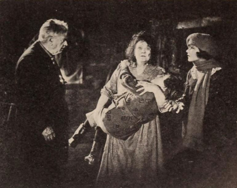 Still for the American drama film The Scoffer (1920) with an unidentified actor, Eugenie Besserer, child actor Georgie Stone, and an unidentified actress, on page 77 of the December 11, 1920 Exhibitors Herald.